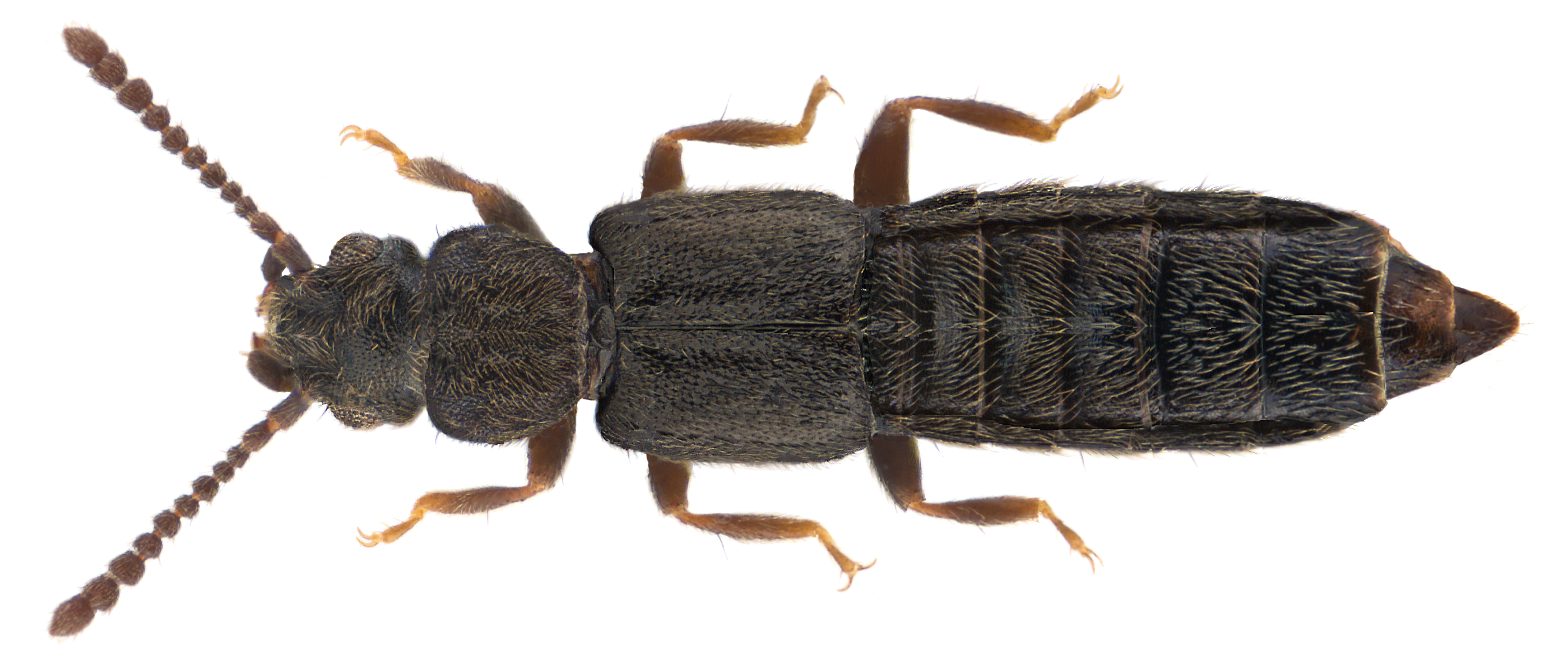 Family: Staphylinidae Size: 2,2 mm (2,0 to 2,3 mm) Origin: Europe Ecology: on banks, in moist habitats Location: Germany, Bavaria, Upper Franconia, Selbitz leg.det. U.Schmidt, 25.V.2001 Photo: U.Schmidt, 2015